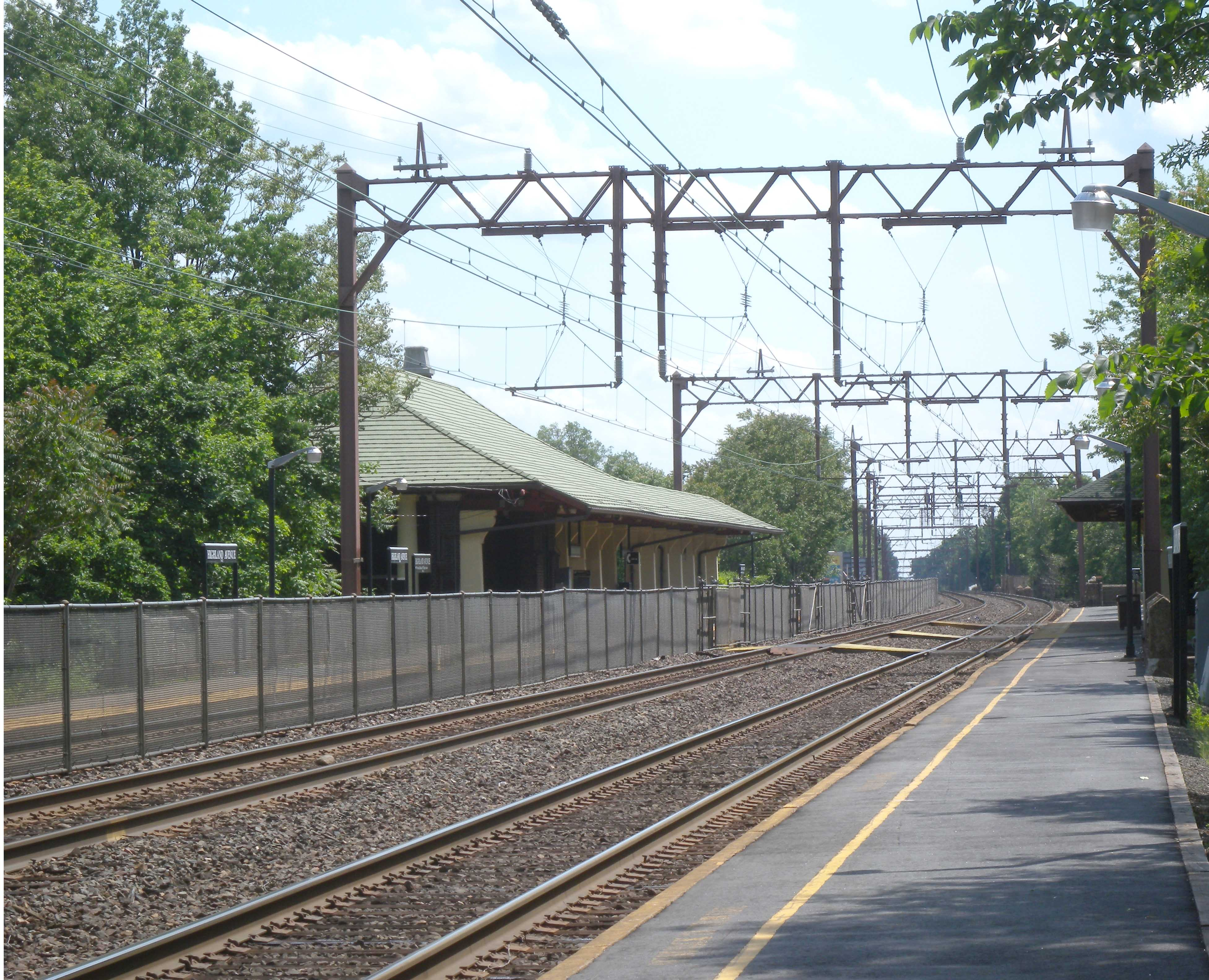 Looking south, full zoom, from north end of Highland Avenue (NJT station) southbound platform on a sunny afternoon.